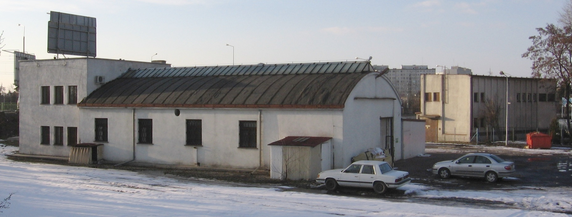 Wrocław, Poland former narrow gauge railway station (Karłowice), Na Polance street till 1950 for goods only, since December 1950 - personal and goods station